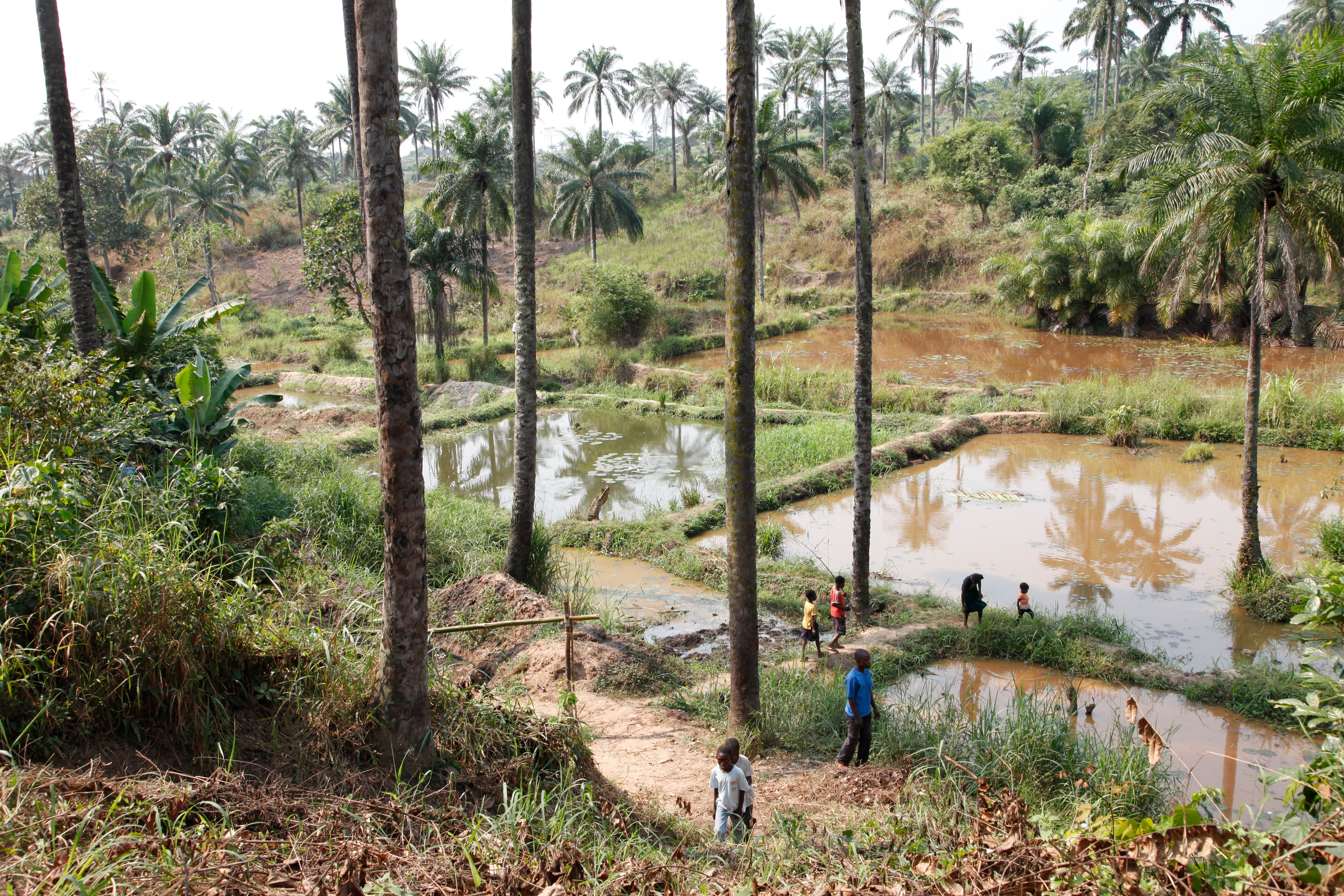 UK aid supported the NGO Action Against Hunger to provide an emergency response to a malutrition crisis in Masi Manimba in 2010. Since then, the community has taken some of the ideas that Action Against Hunger brought to them, and organised itself to tackle malnutrition from the ground up - by forming its own co-operative farms and self-support groups. Read the full story at Picture: Russell Watkins/Department for International Development Terms of use This image is posted under a Creative Commons - Attribution Licence, in accordance with the Open Government Licence. You are free to embed, download or otherwise re-use it, as long as you credit the source as Russell Watkins/Department for International Development'.